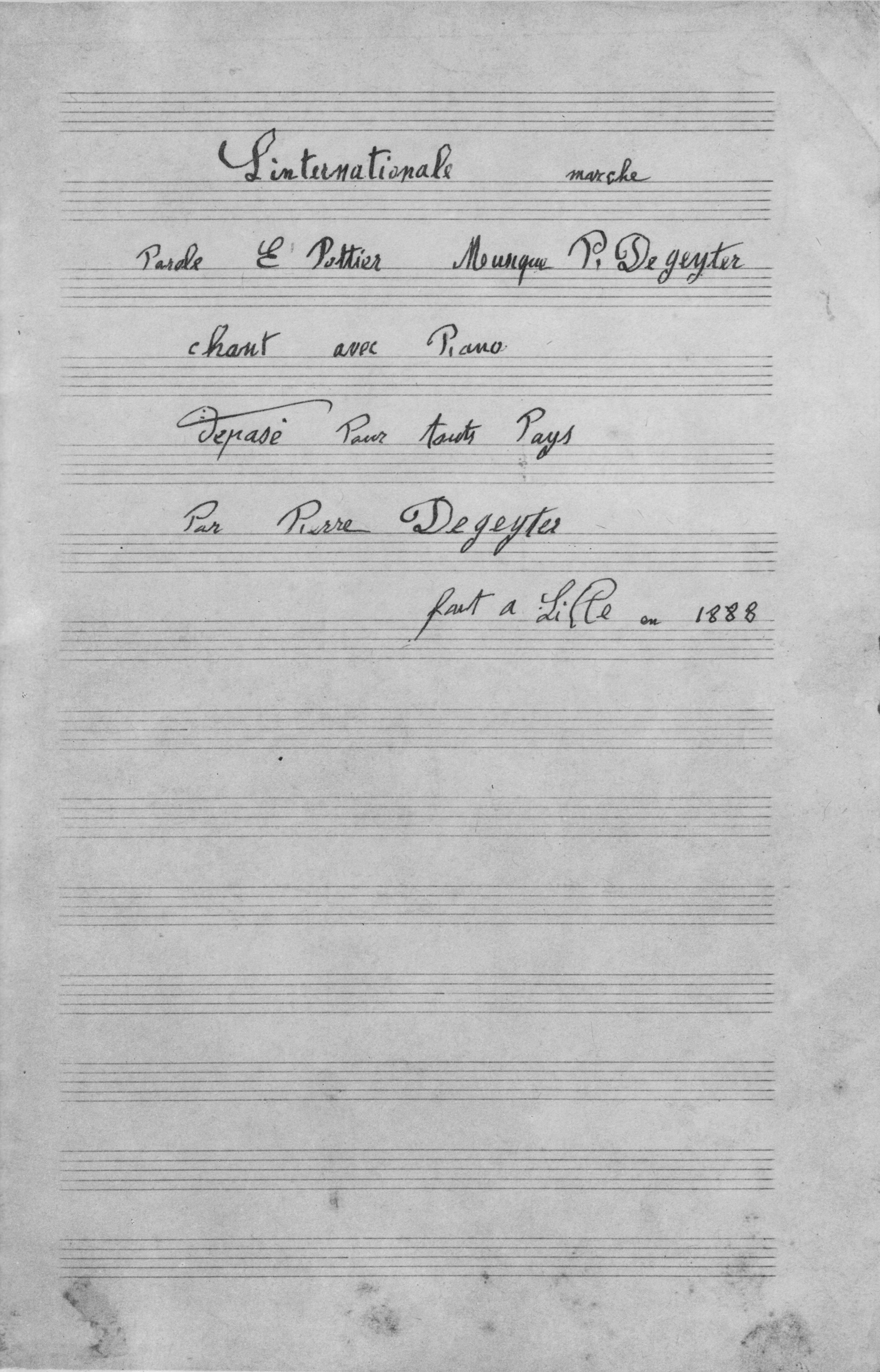 The original of the facsimile (cover page) of the International was in the Institute for Marxism-Leninism of the Socialist Unity Party of Germany. Accourding to the title page it is an arrangement for voice and piano, a handwritten copy mad by the composer and signed by him. Further, it is stated that Pierre Degeyter composed the tune to verses by Pottier in 1888 an that the copyright has been applied for in all countries. That the addition of fait à Lilleen 1888 refers to the year of composition an not to the present version is proved by the fact, that Degeyter first began to make applications for the sole legal right of copyright in 1906, the signature however, demonstrates that copyright has already been applied for. It is therefore almost certain that this copy was made sometime after 1906.